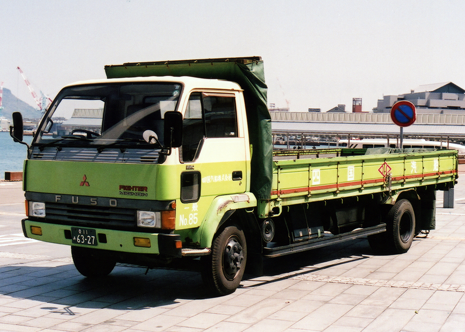 1th generation Fuso Fighter MIGNON